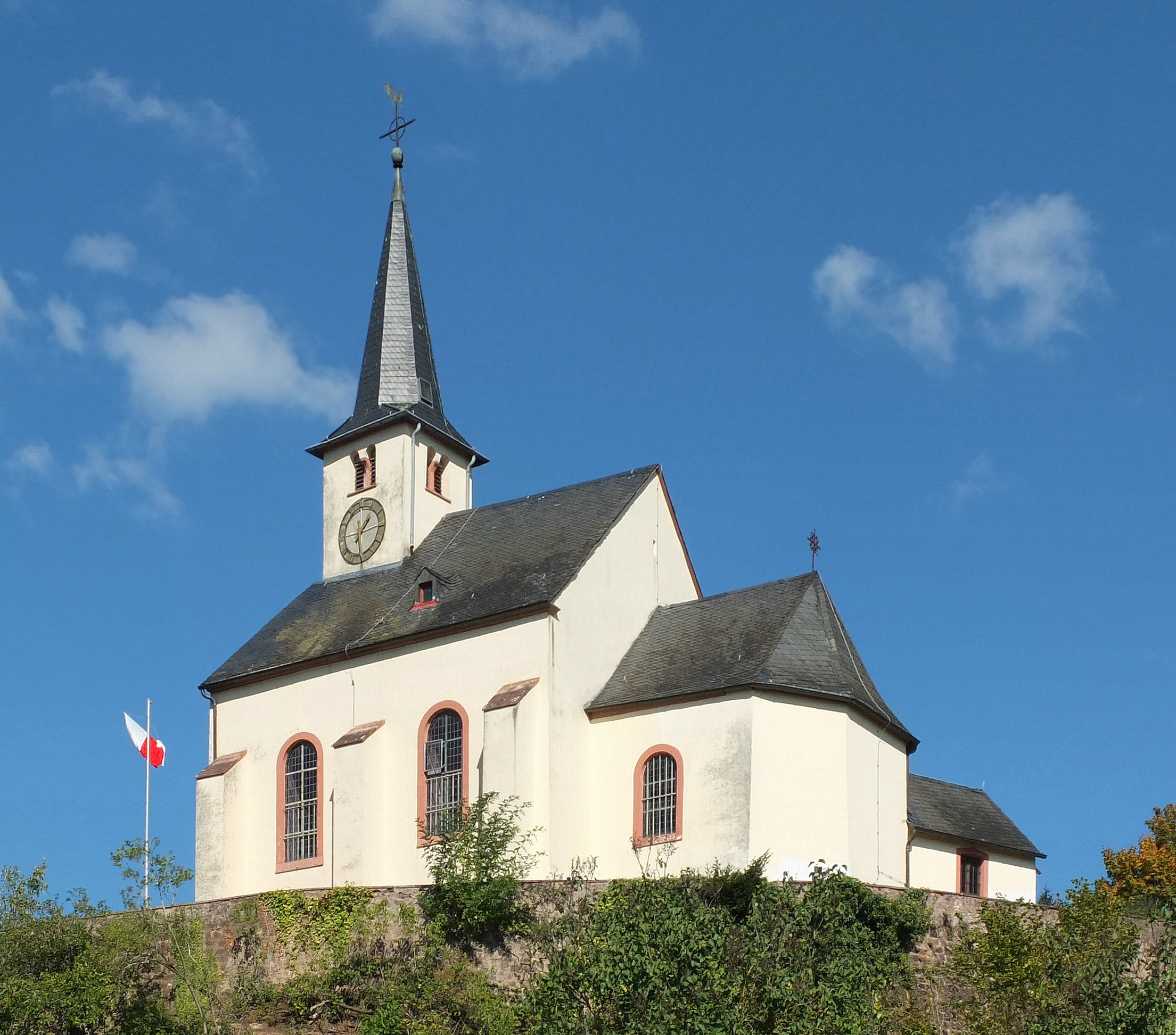 Ancient parish church Sankt Dionysius in Igel, Rhineland-Palatinate, 12th-18th century. (view S) This is a photograph of an architectural monument.It is on the list of cultural monuments of Igel (Mosel)